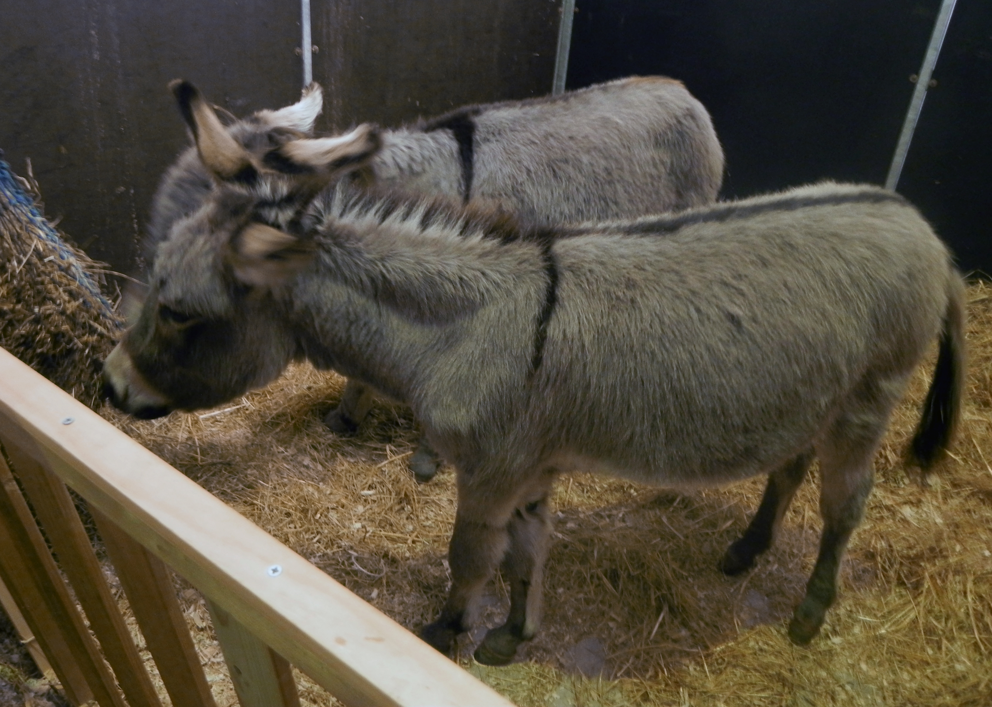 Sardinian Donkeys (Asino sardo), photographed at Fieracavalli, Verona, Italy, on 9 November 2014.